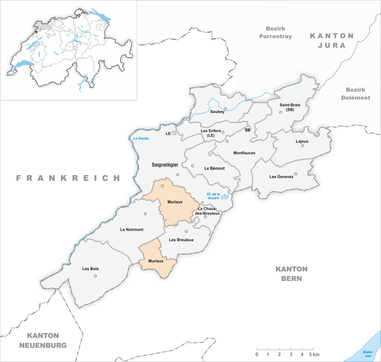 Municipality Muriaux